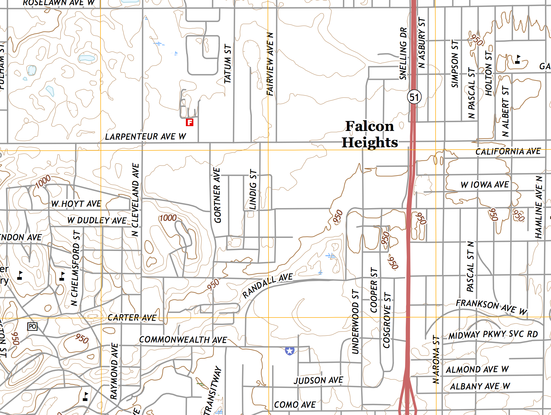 USGS 1:24000-scale Quadrangle for St. Paul West, MN 2016